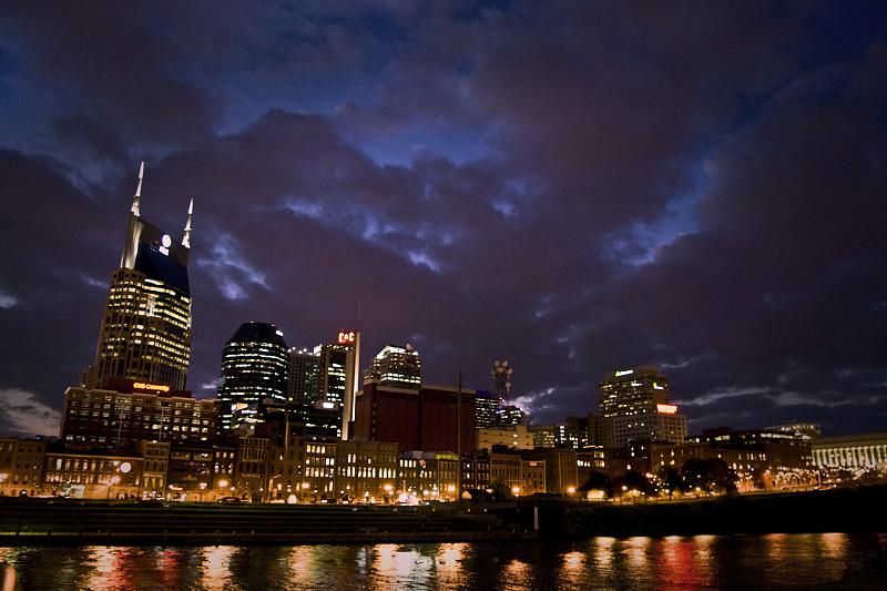 Downtown Nashville skyline at night